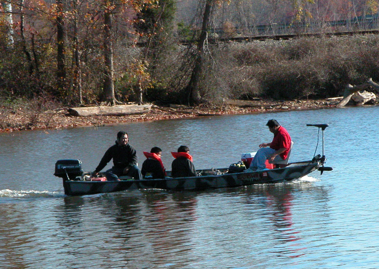 Bass boat, aluminum, on High Rock Lake